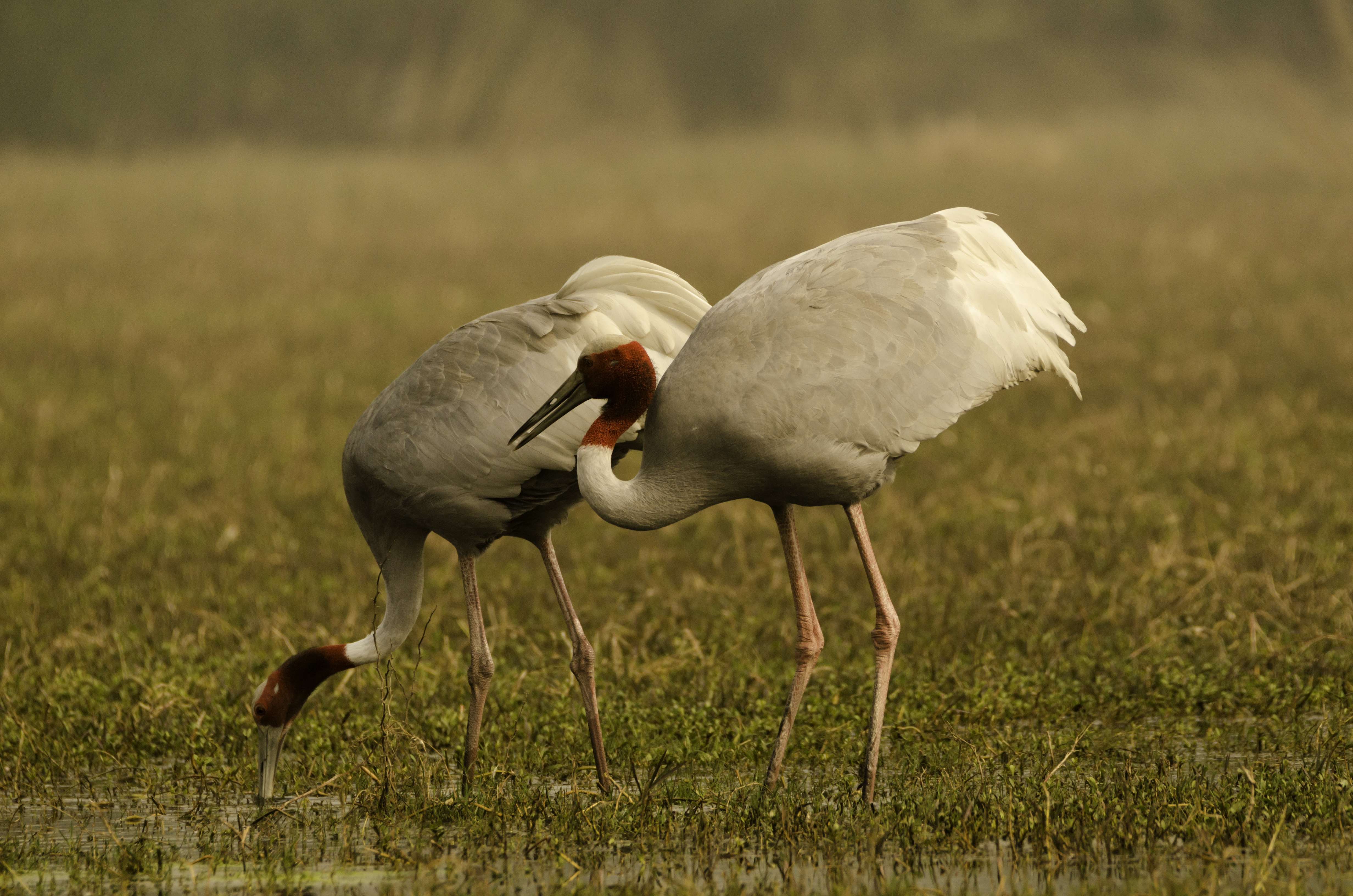 While walking through the Keoladeo National Park, Rajasthan, India, I saw Sarus Cranes eating foods.